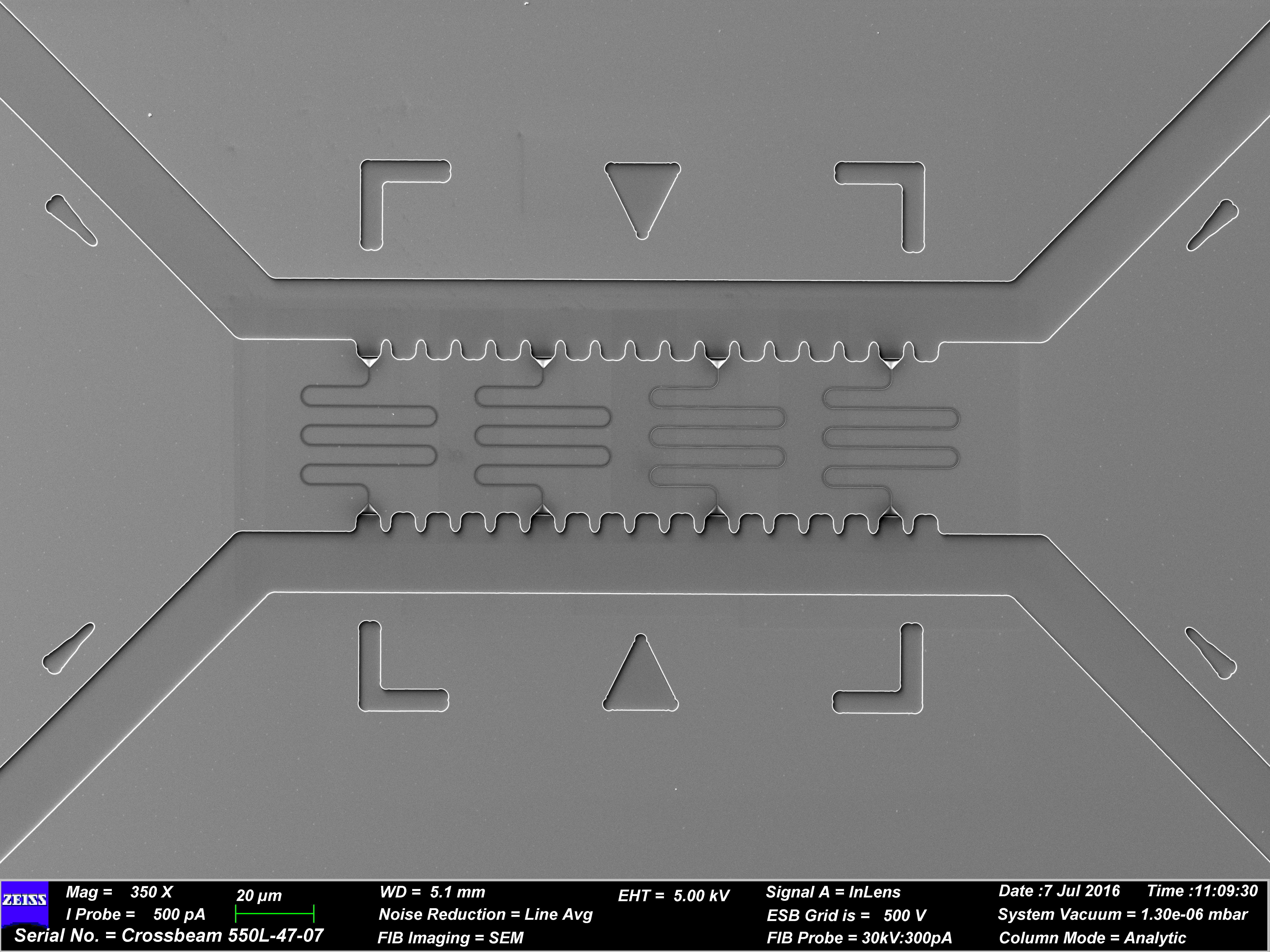 Nanofluidics channels fabricated with ZEISS Crossbeam 550 L in a silicon master stamp. Sample courtesy of: I. Fernández-Cuesta, INF Hamburg, Germany.